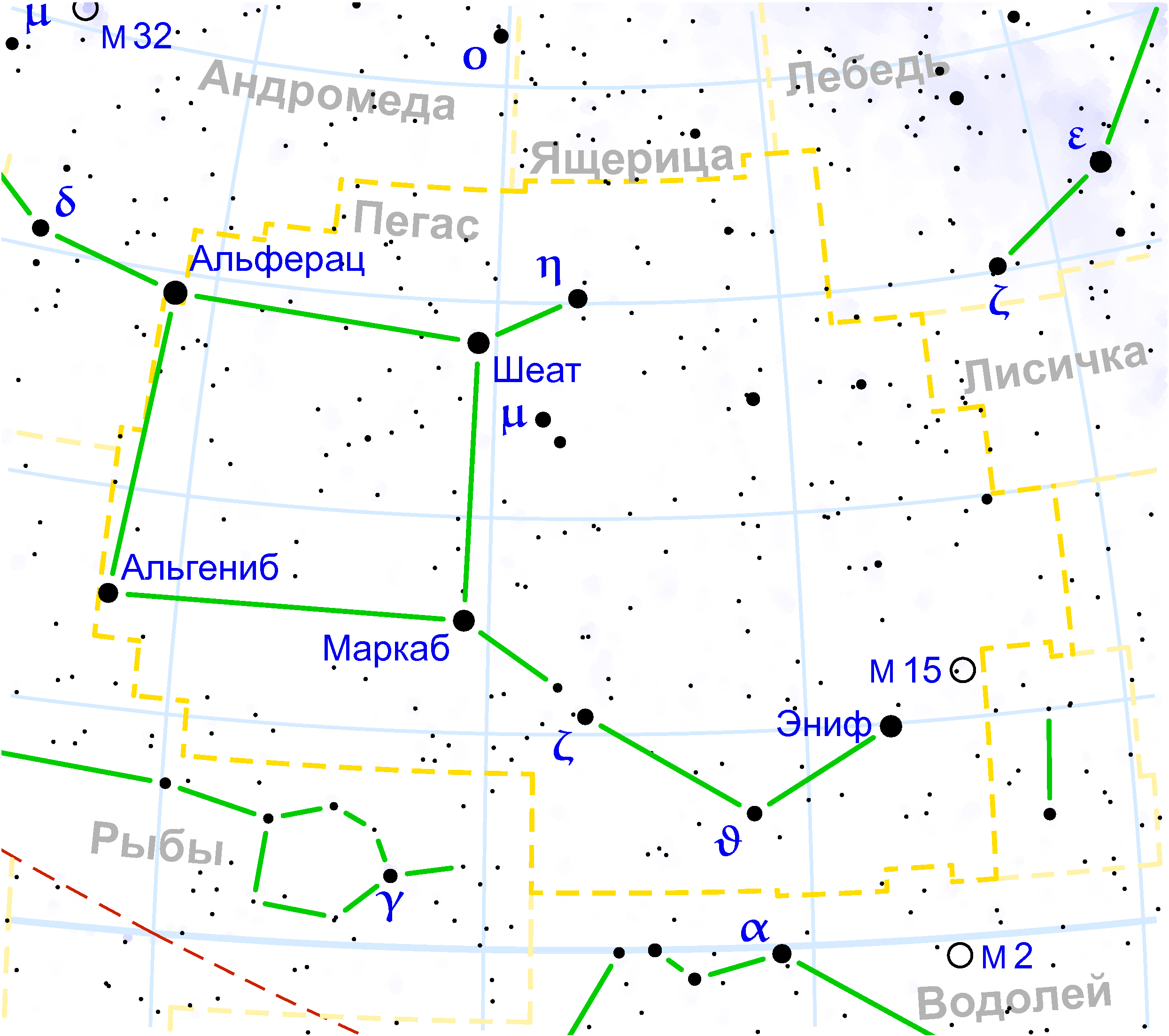 Pegasus constellation map in Russian